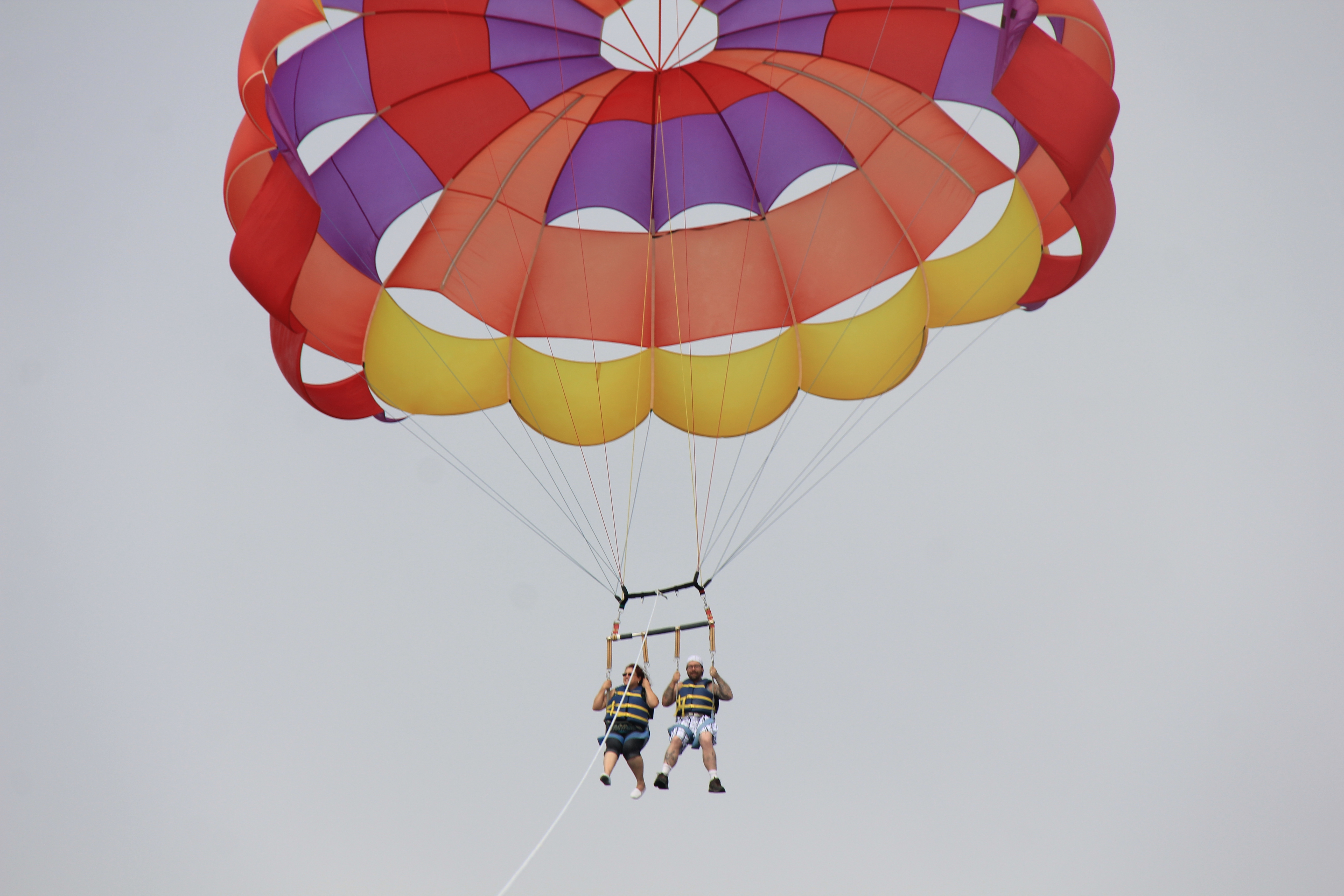 My wife and I para sailing on our anniversary on Catalina Island